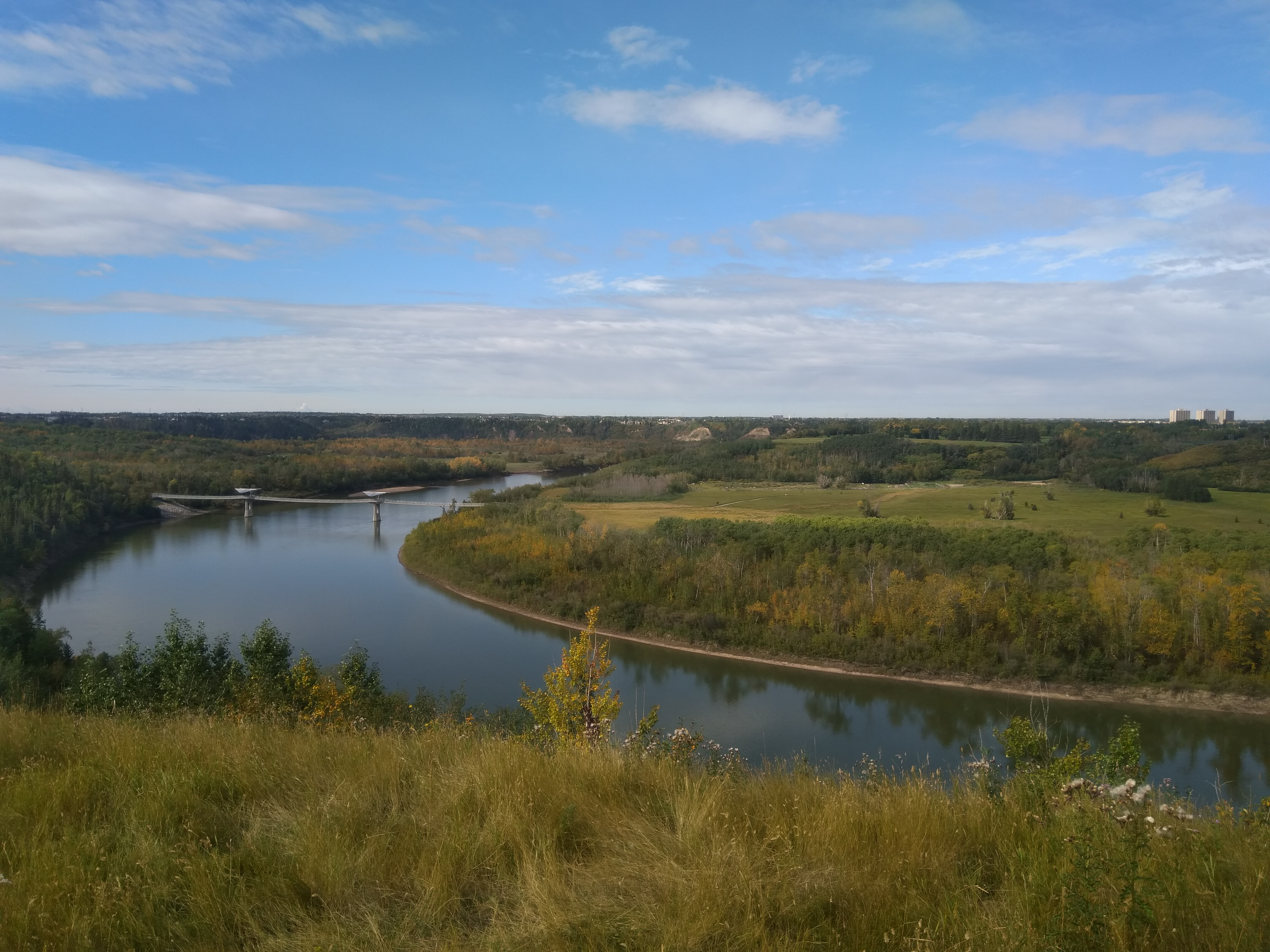 A view of Terwillegar Park in Edmonton, taken on September 14, 2018